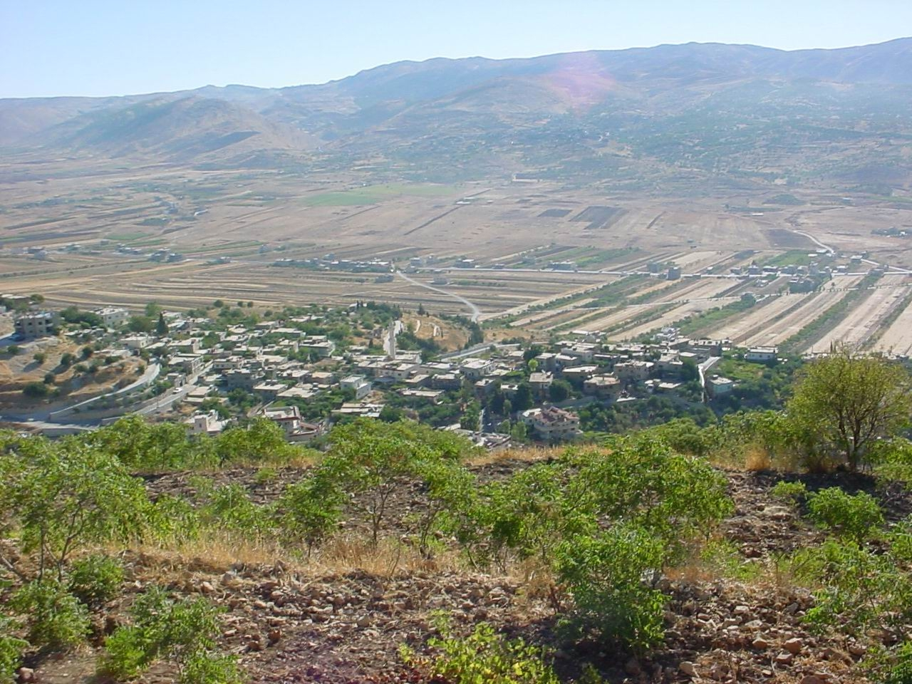 Al-Rafid, Bekaa, Lebanon (looking east).